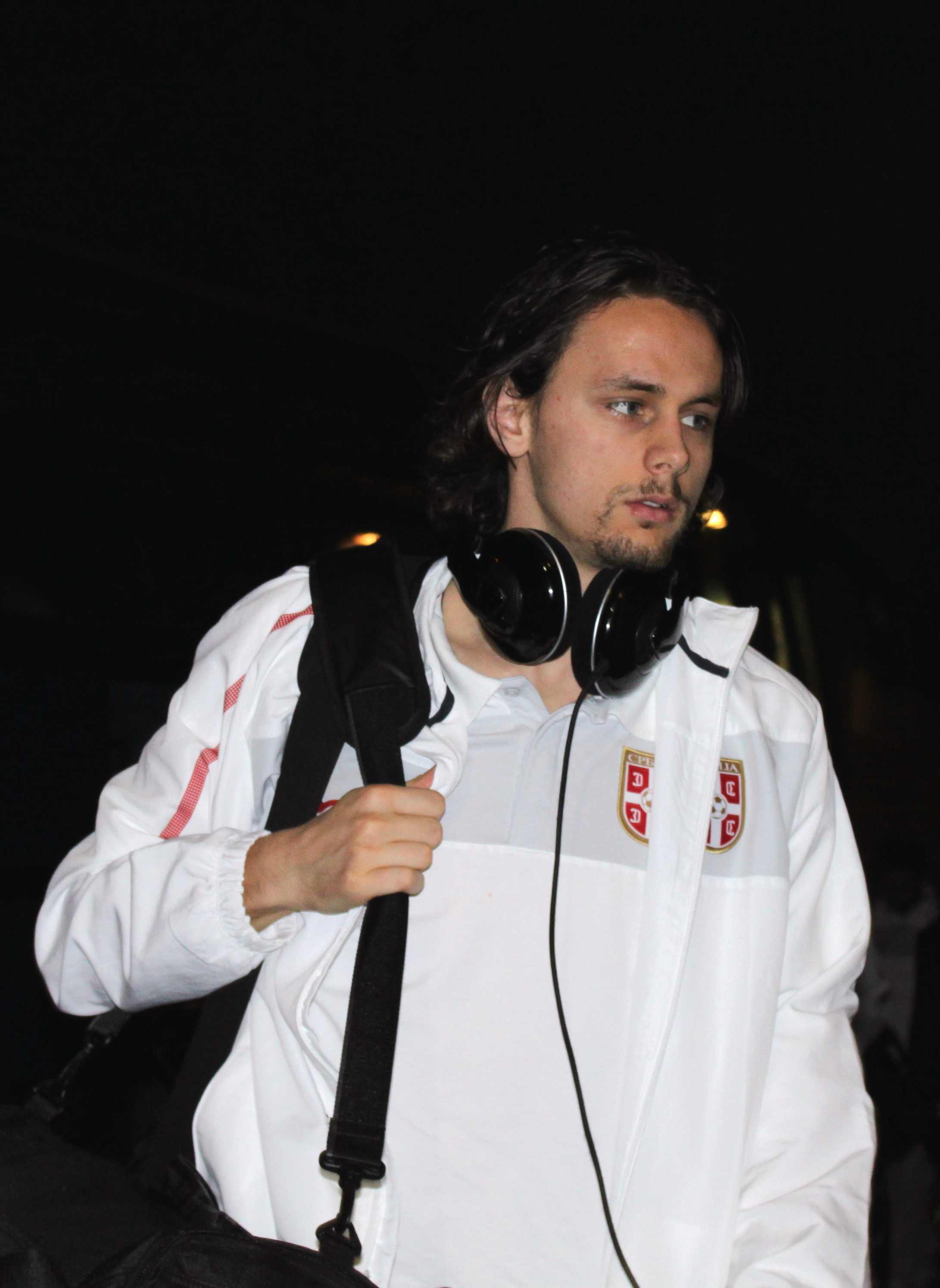 Neven Subotić (Serbian Cyrillic: Heвeн Cубoтић) (born 10 December 1988) is a Serbia football defender, who plays for Borussia Dortmund. Subotić made his first-team debut at the very end of the 2006–07 season as Mainz were relegated from the Bundesliga. In the 2. Bundesliga the following year, he seized a starting role and quickly received high marks as one of the best young defenders in the league.